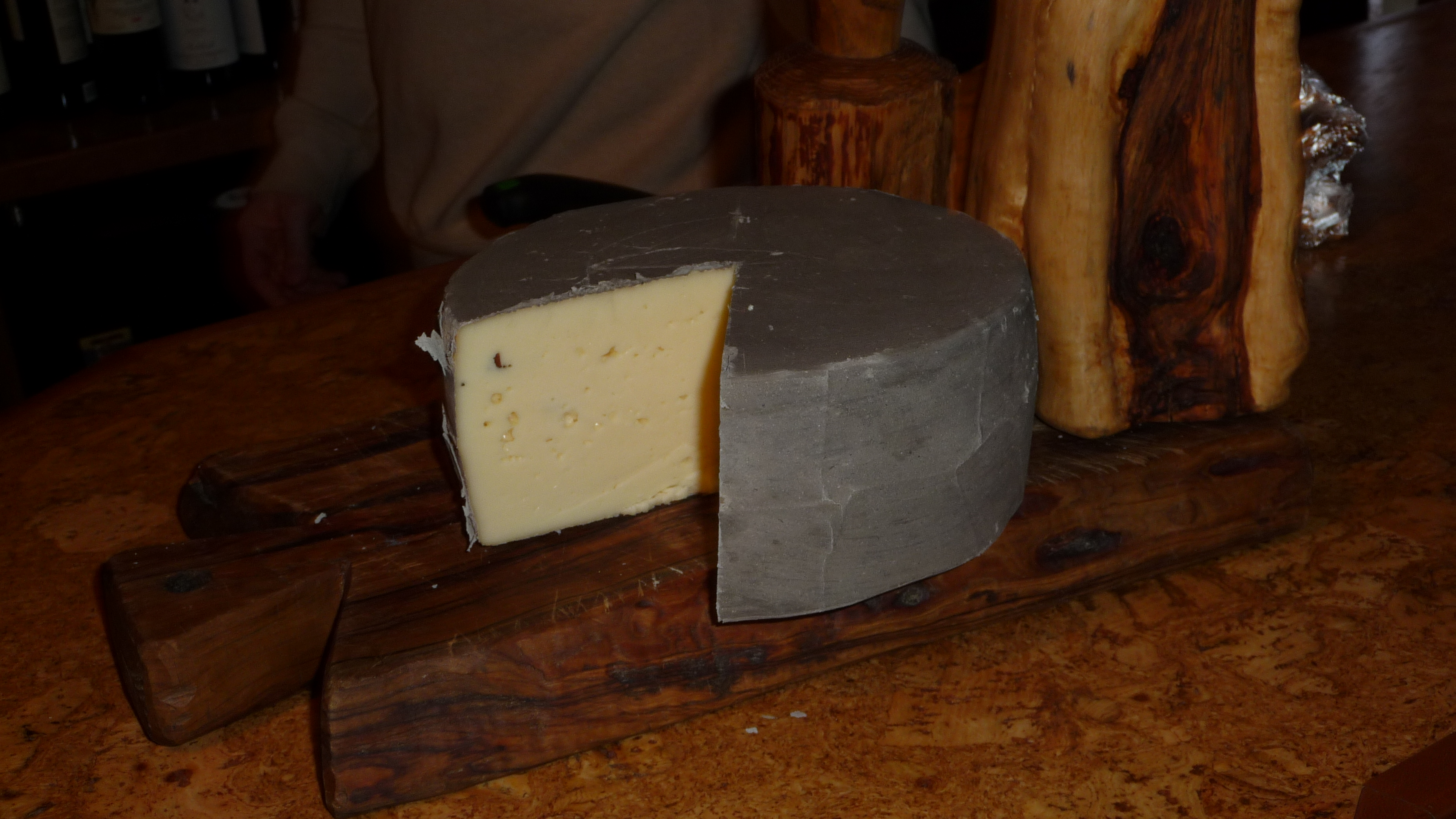 Sottocenere al tartufo is a very pale yellow to off-white cheese, originating in Venice, Italy, that has a grey-brown ash rind.